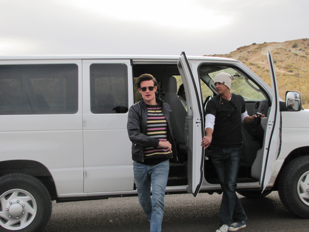 Matt bursts onto the scene